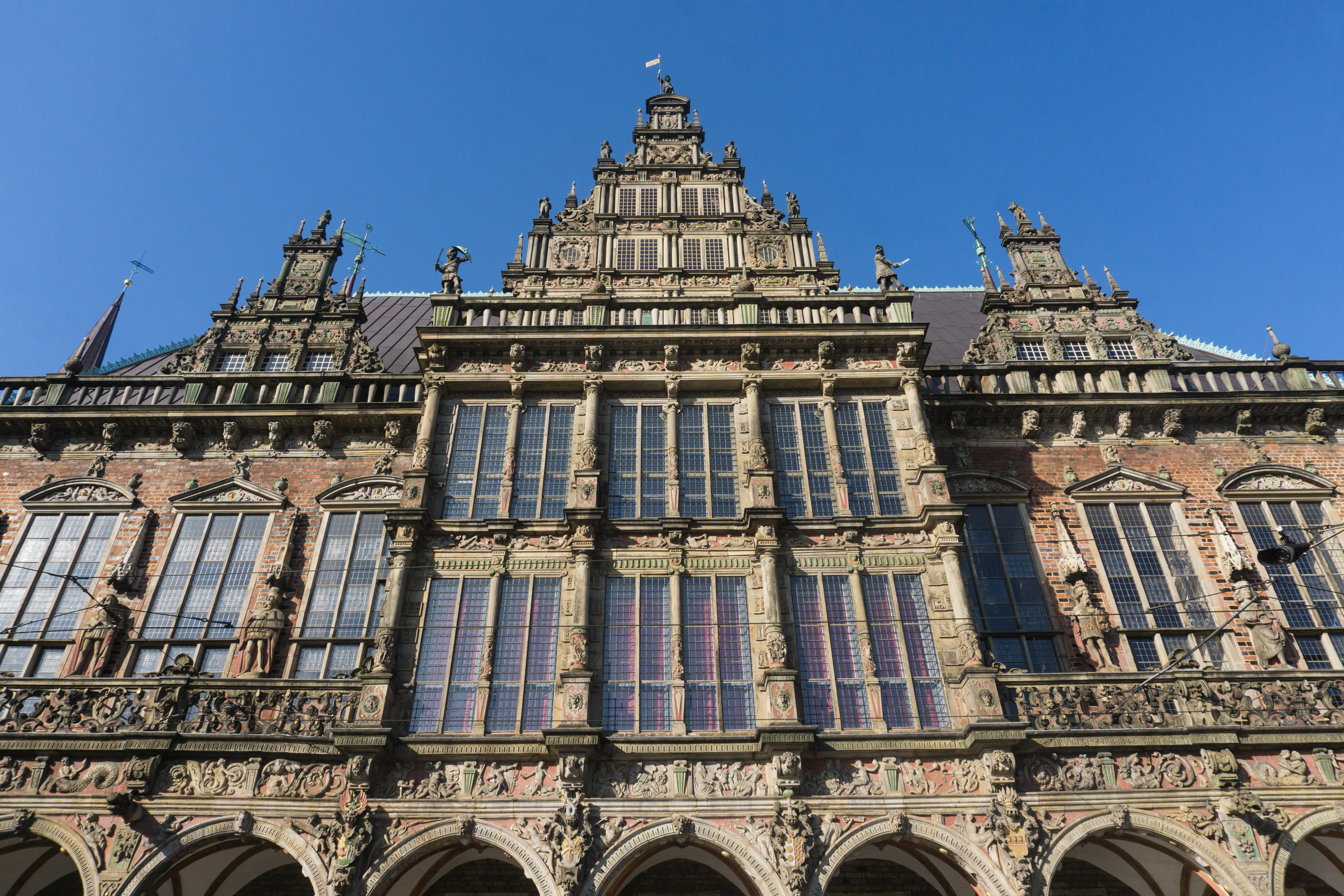 Bremen Town Hall